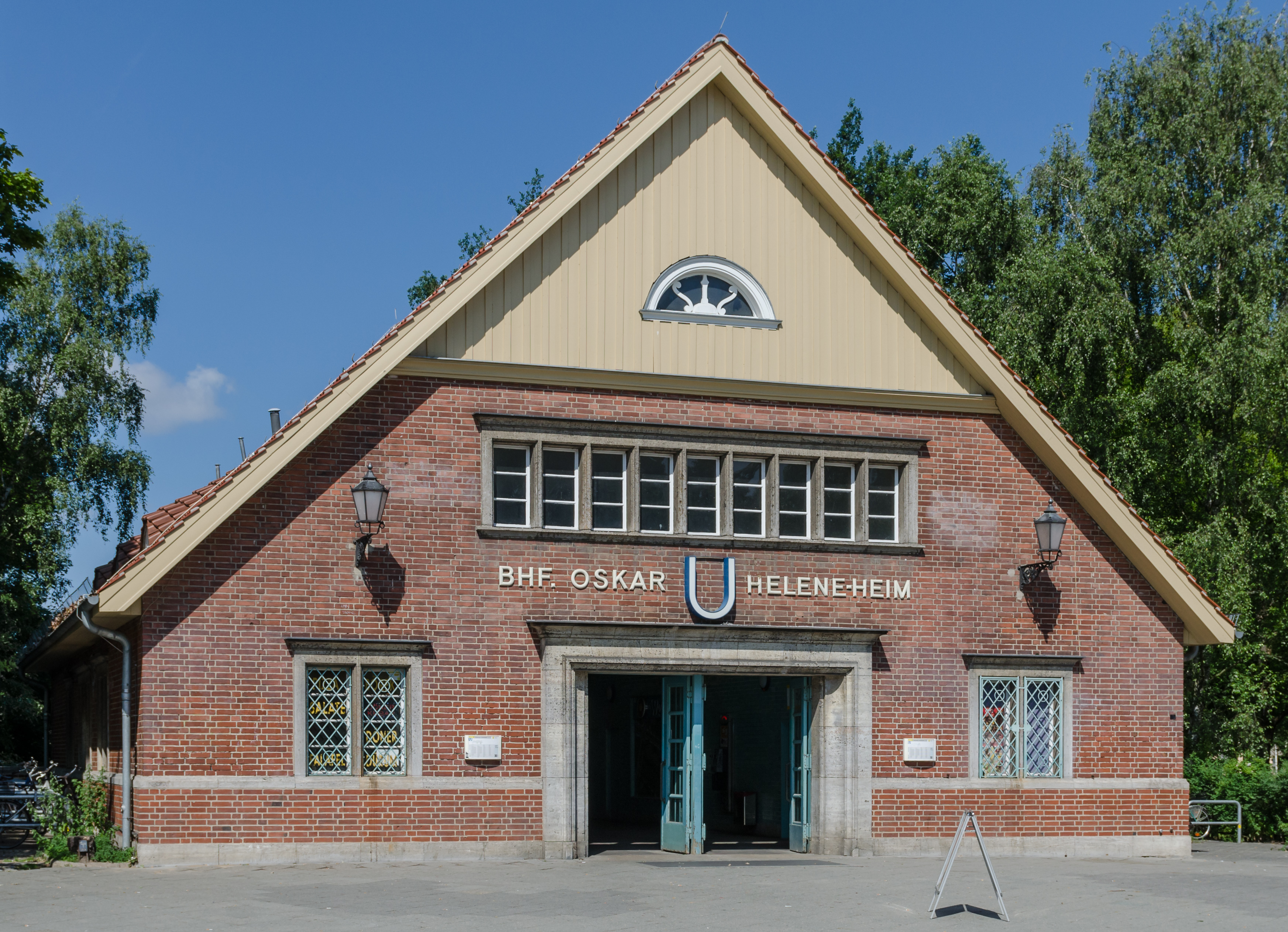 The main building of the U-Bahn station Oskar-Helene-Heim of line U3